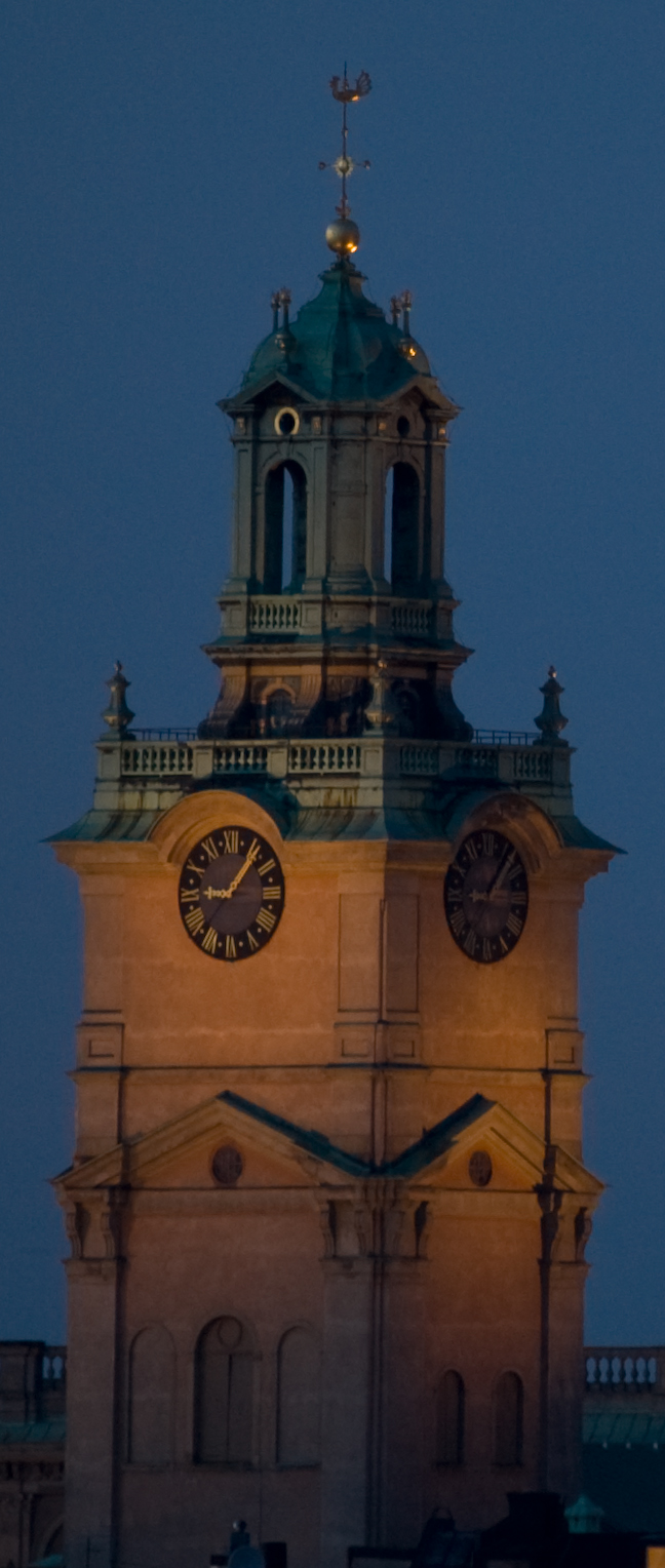 Storkyrkan at night seen from Södermalm.